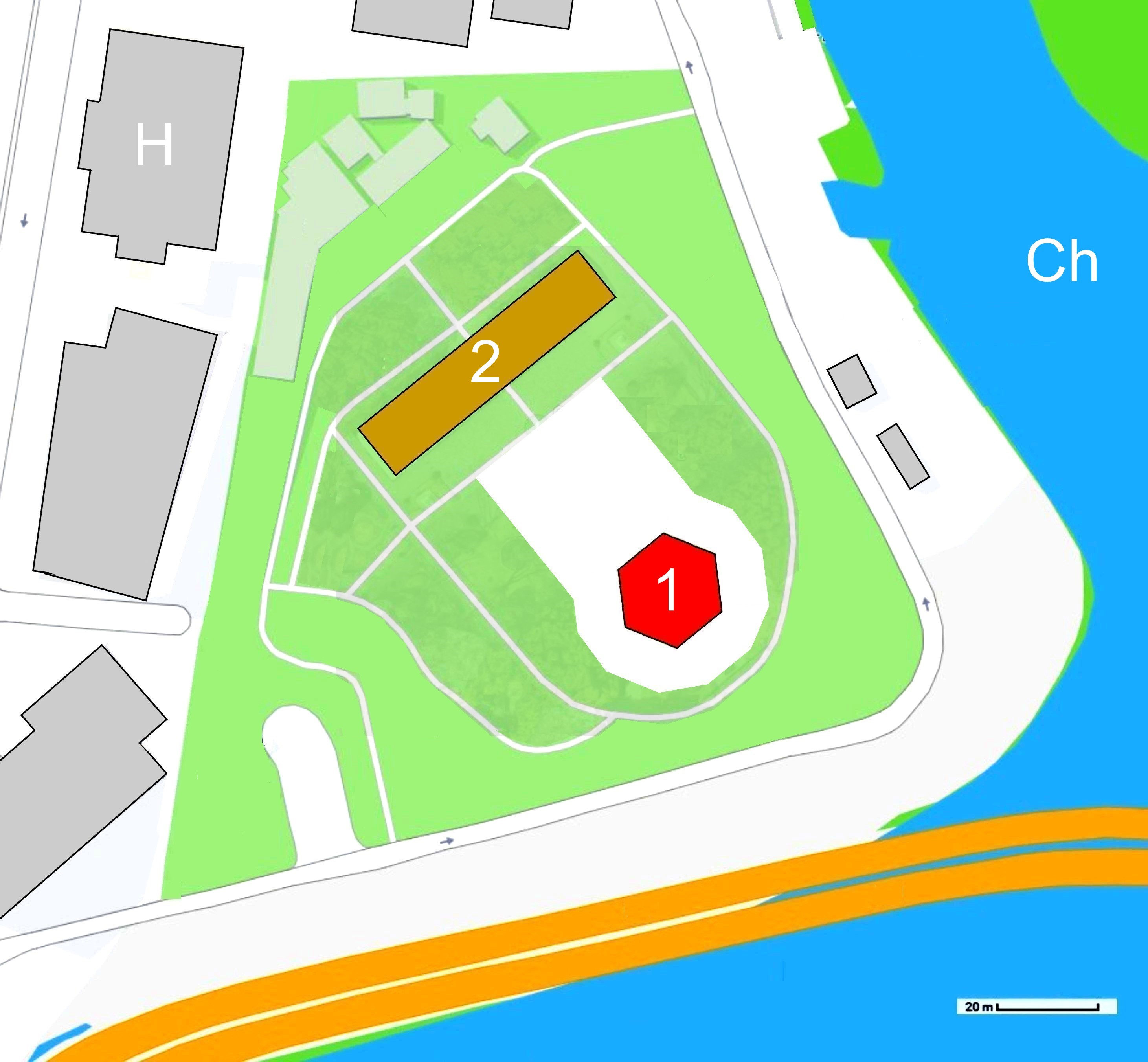 Chidorigafuchi National Cemetery, Tokyo